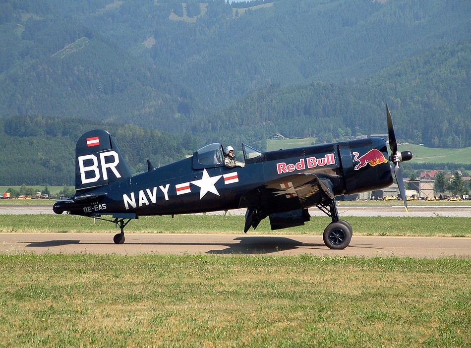 A Chance Vought F4U of the Flying Bulls (Corsair) at the Airpower 2005 Air Show in Zeltweg, Austria